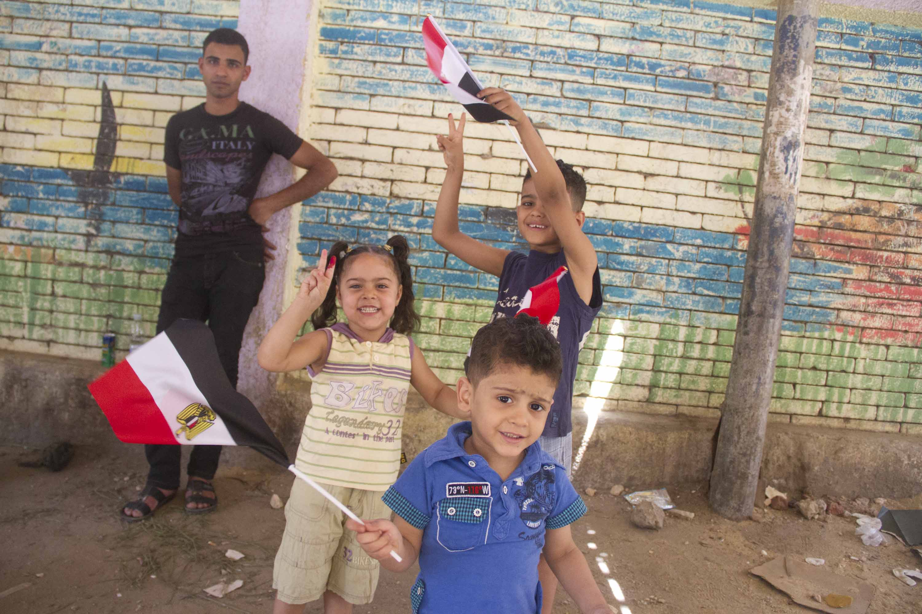 Original description: "Children wave flags outside a polling station in Cairo, May 27, 2014. (Hamada Elrasam /VOA)"